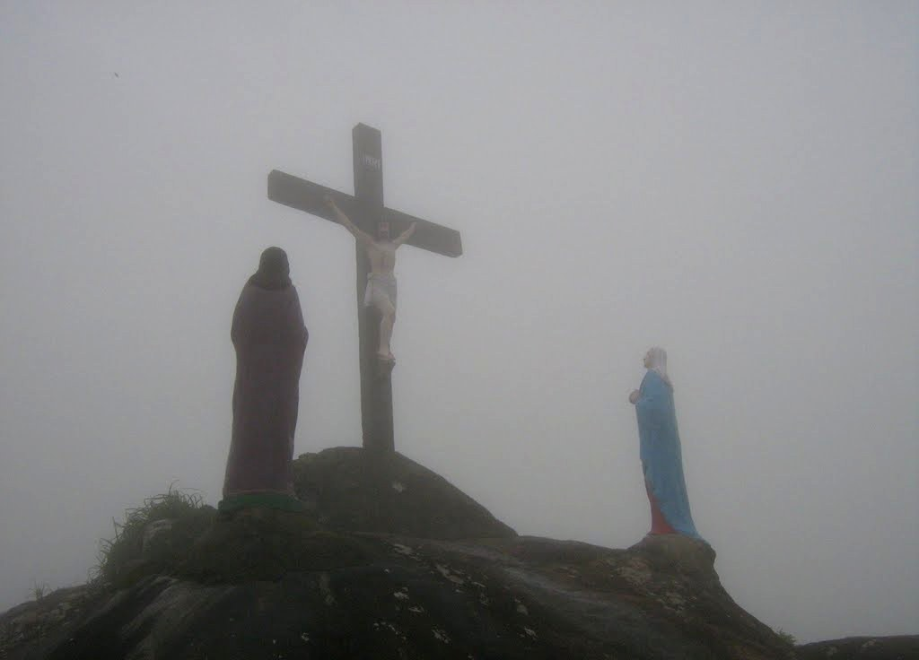 Holy cross on top of Kurisumala Hill, Vagamon.